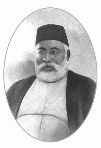 Meshadi Melik bey Mansurov, grandfather of Bahram Mansurov.